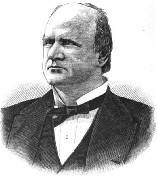 U.S. Supreme Court Justice John Marshall Harlan